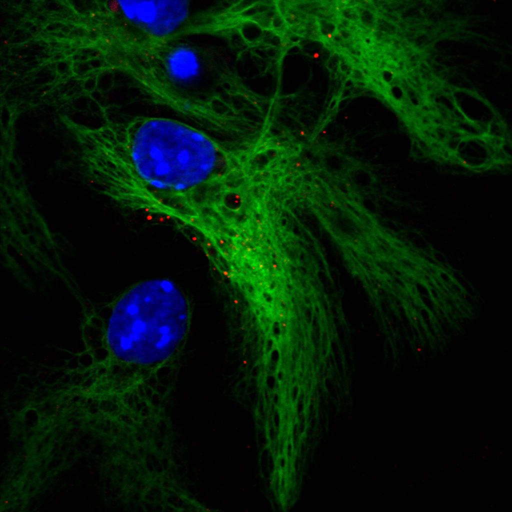 Neural Stem Cells from Subgranular Zone (Hippocampus) differentiated in Astrocytes (green) and showing Growth Hormone receptor i.r. (red)